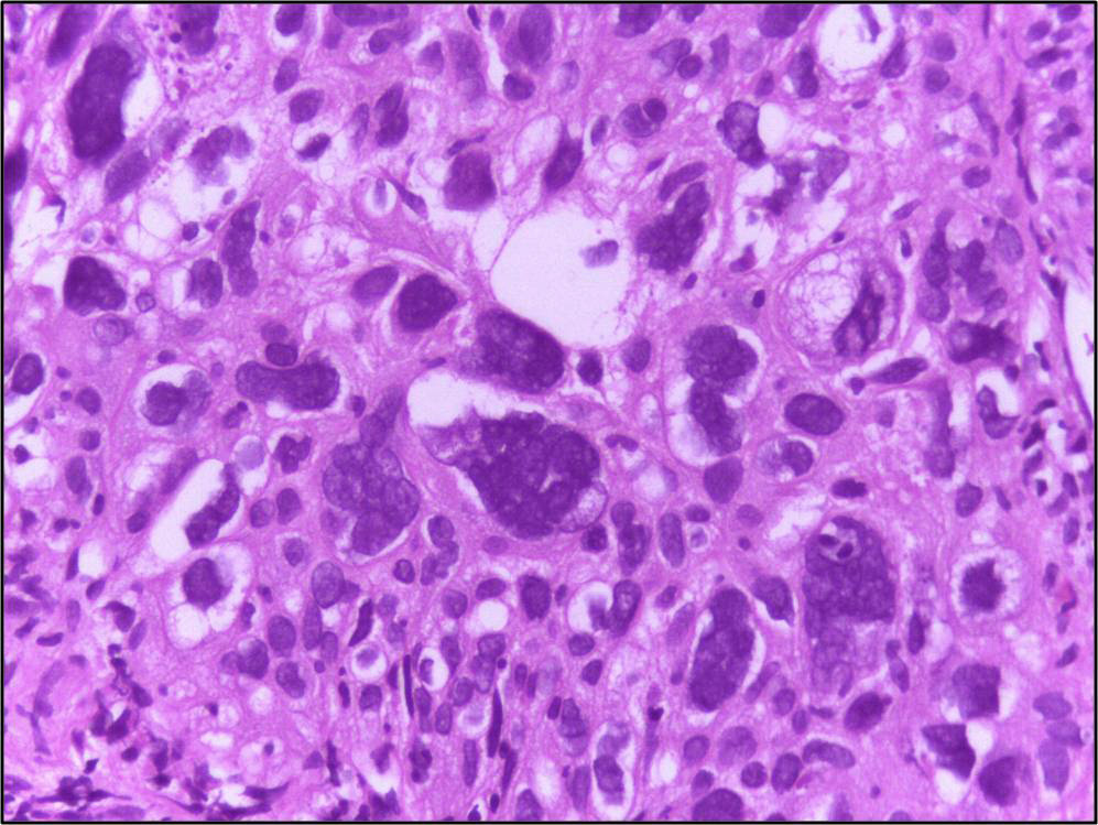 Malignant neoplasm showing marked anaplasia. Note the marked nuclear pleomorphism, bizarre cells and tumor giant cells. [H&E stain; 40X]